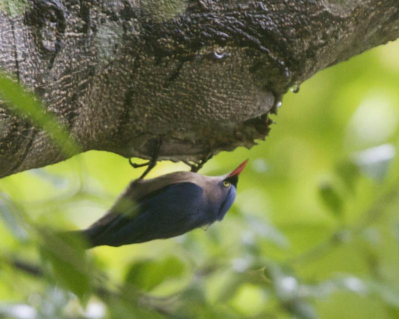 Velvet-fronted Nuthatch Sitta frontalis Sitta frontalis frontalis Seen near Sigiriya, Sri Lanka Elevation 200m 4th. February 2011 Ditribution: 690V8456